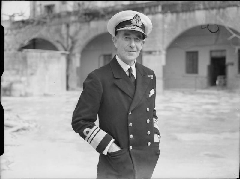 Photograph of Vice Admiral Sir Ralph Leatham, KCB, the new Vice Admiral for Malta.